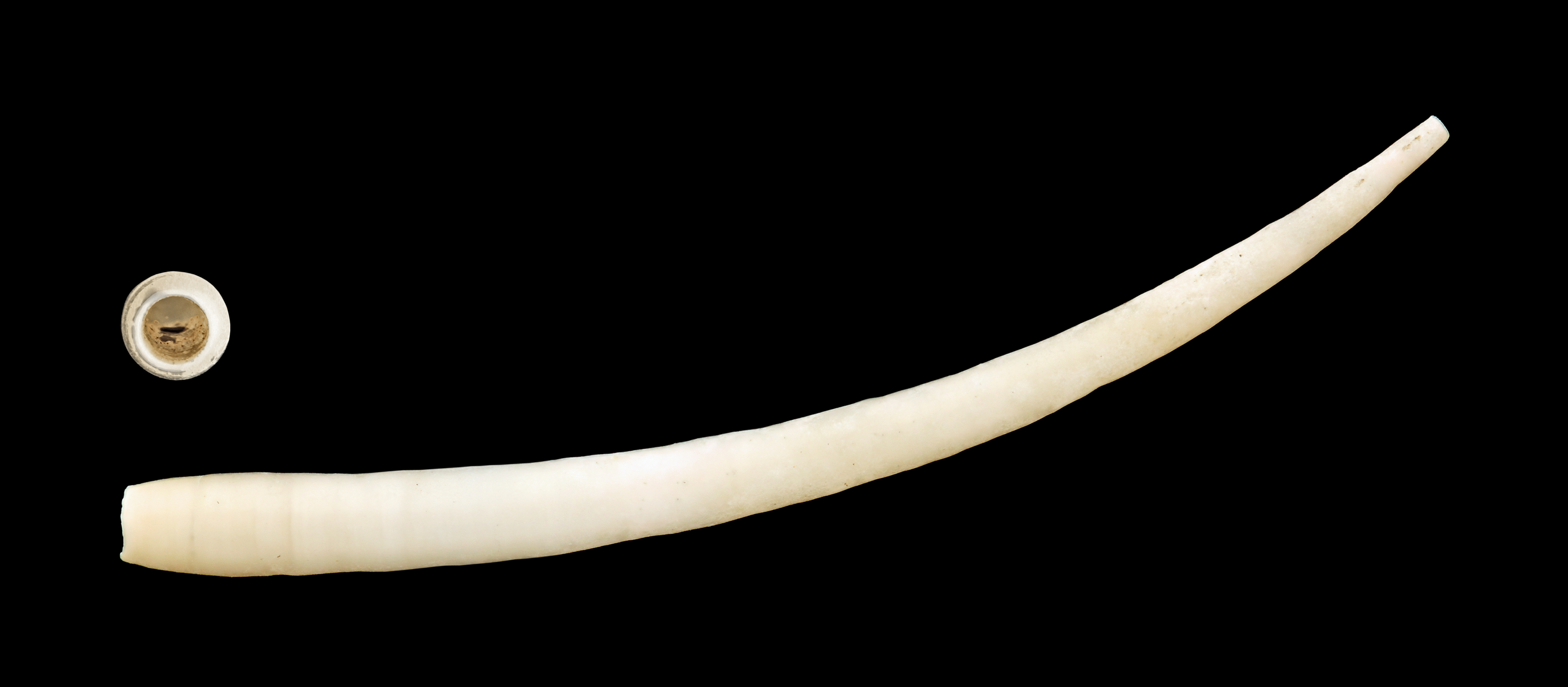 Tube; Length 3.2 cm; Originating from Port Leucate, France; Shell of own collection, therefore not geocoded. Lateral and frontal view.